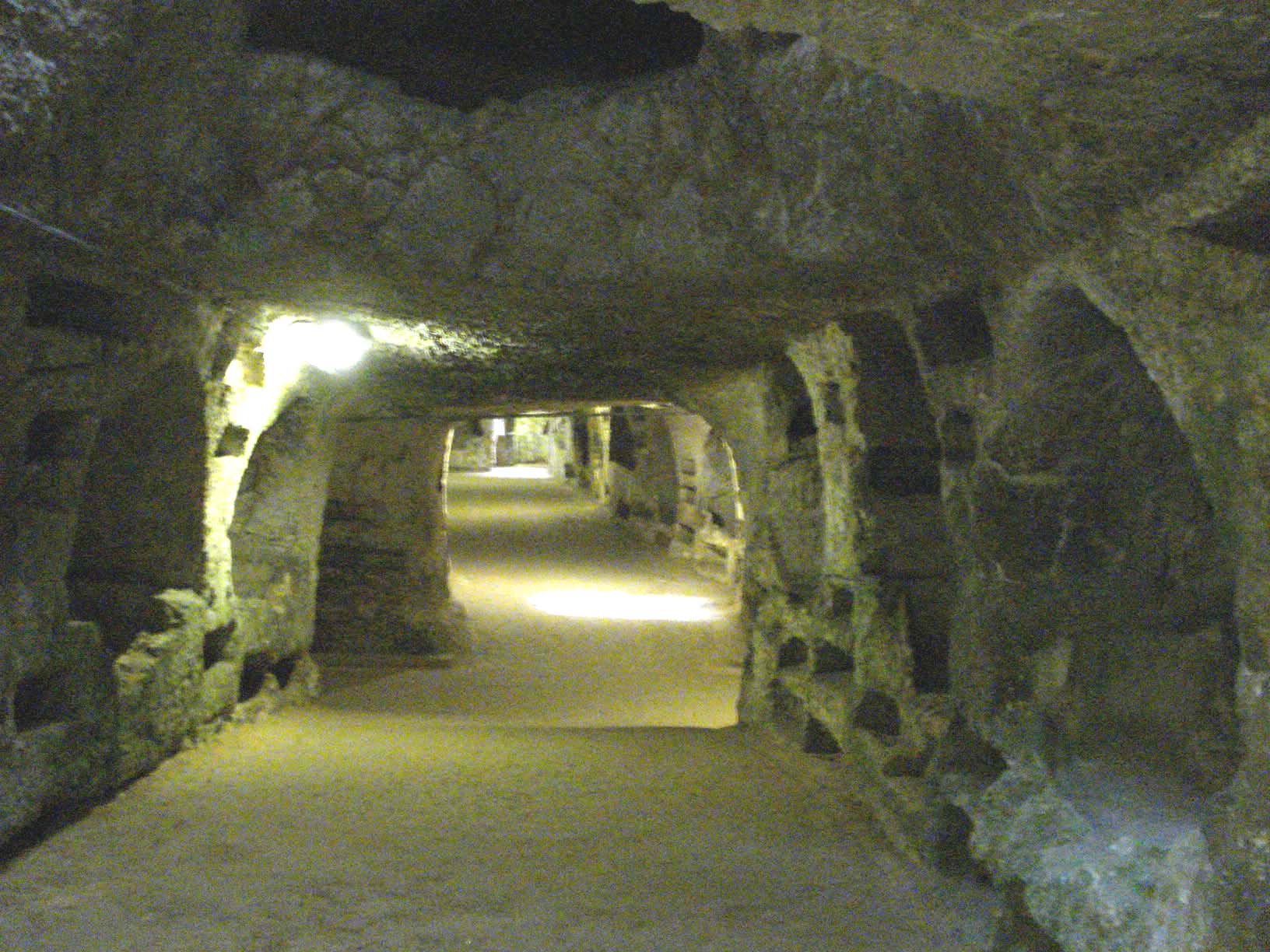 Main road of San Giovanni Catacombs